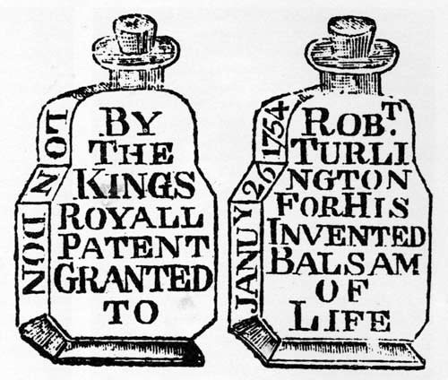 Turlington's Balsam of Life bottles as represented in a brochure dated 1755-1757.